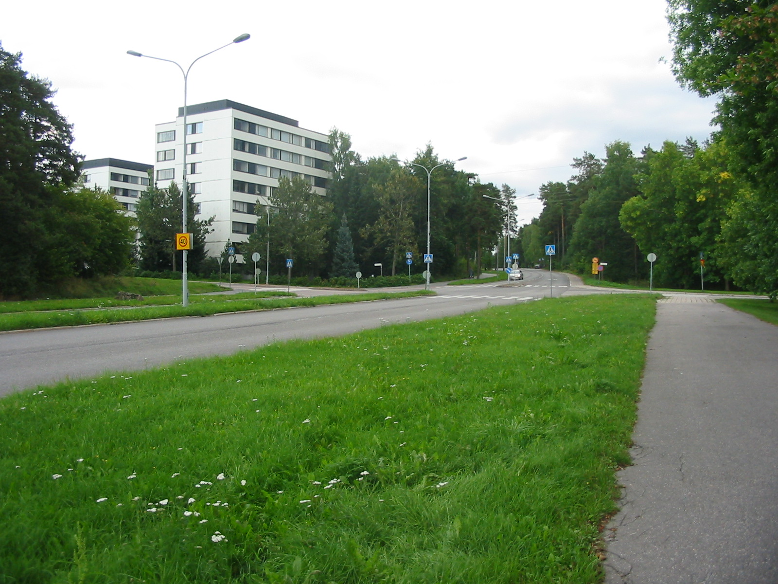 Suikkila neighbourhood in the disrict of Pitkämäki, Turku, Finland, seen from Göteborginkatu